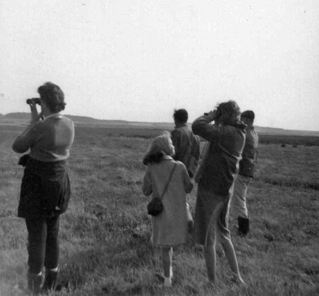 Bird watching on Scolt Head Island, Brancaster, Norfolk taken in 1961